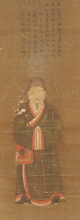 Tosō Tenjin, deposited at Nara National Museum